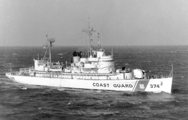 United States Coast Guard cutter USCGC Absecon (WHEC-374, ex-WAVP-374)